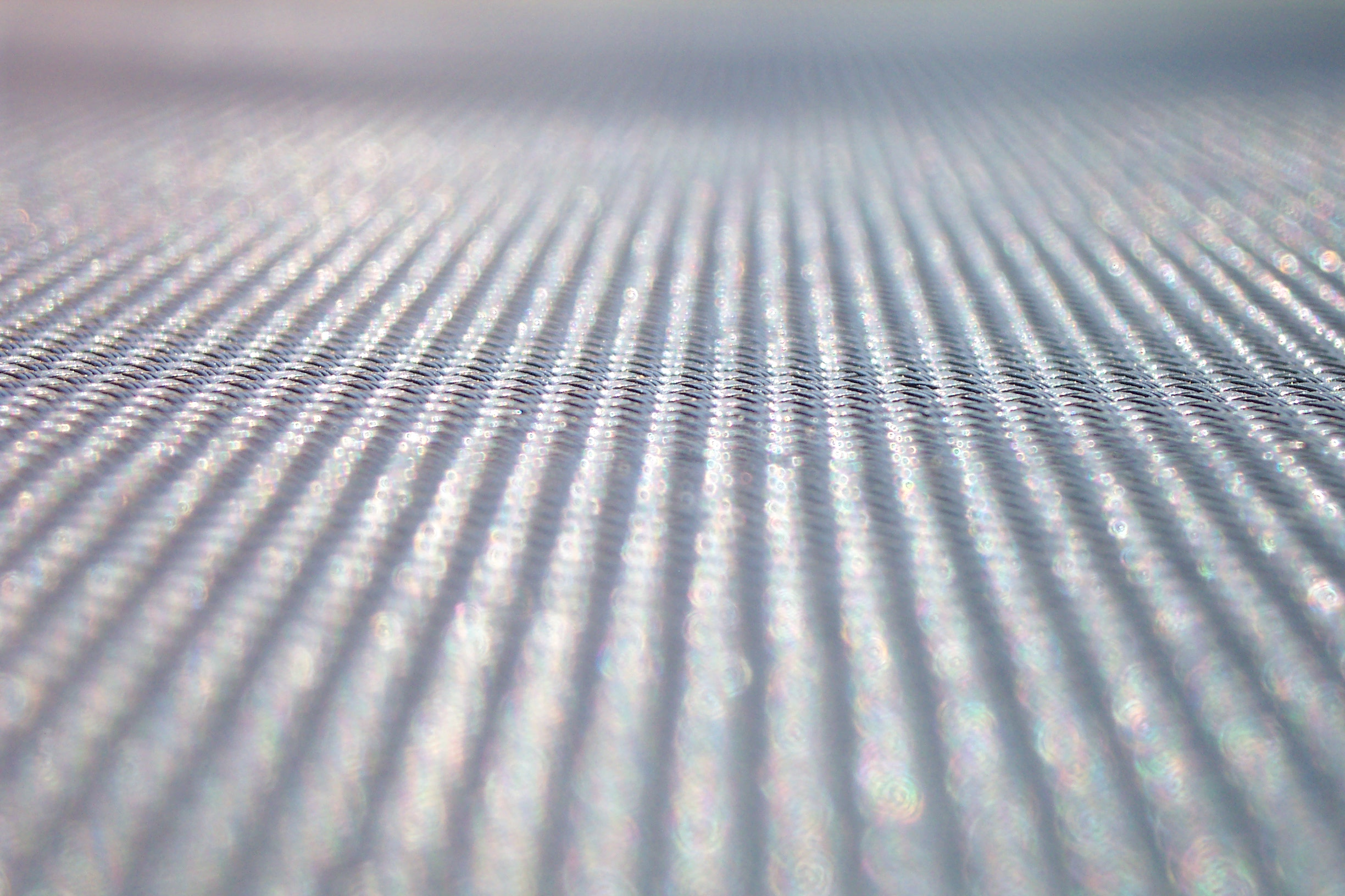 Textured - trampoline